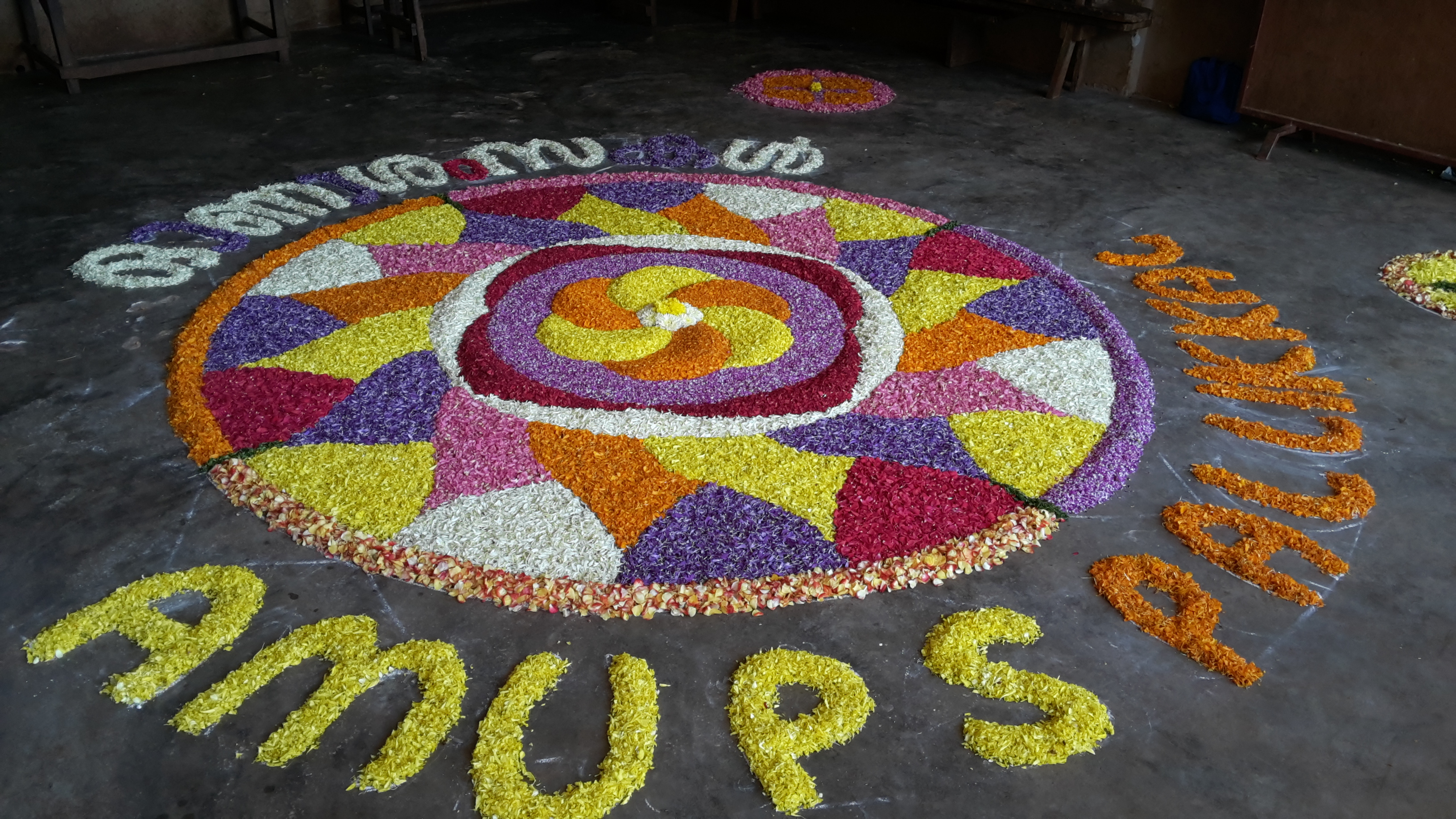 Onam Programme in AMUPS PALLIKKAL